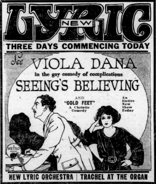 Newspaper advertisement for the American comedy romance film Seeing's Believing (1922) with Viola Dana, on page 13 of the May 18, 1922 Duluth Herald.